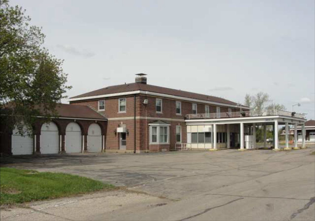 Former U.S. Customs and Immigration Station, Noyes, Minnesota, USA. Viewed from the east.